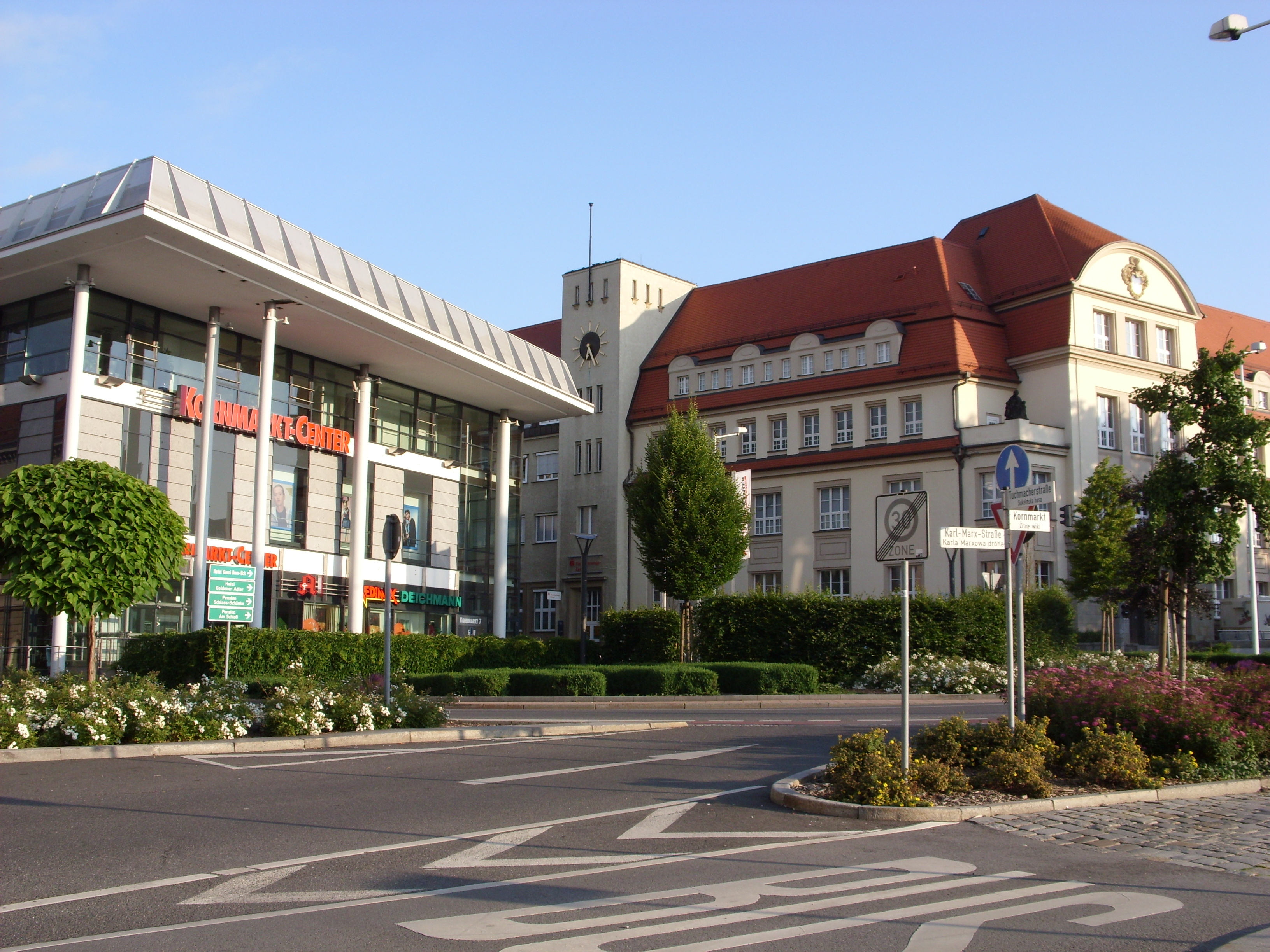 City centre of Bautzen; Kornmarktcenter Mall and Museum.